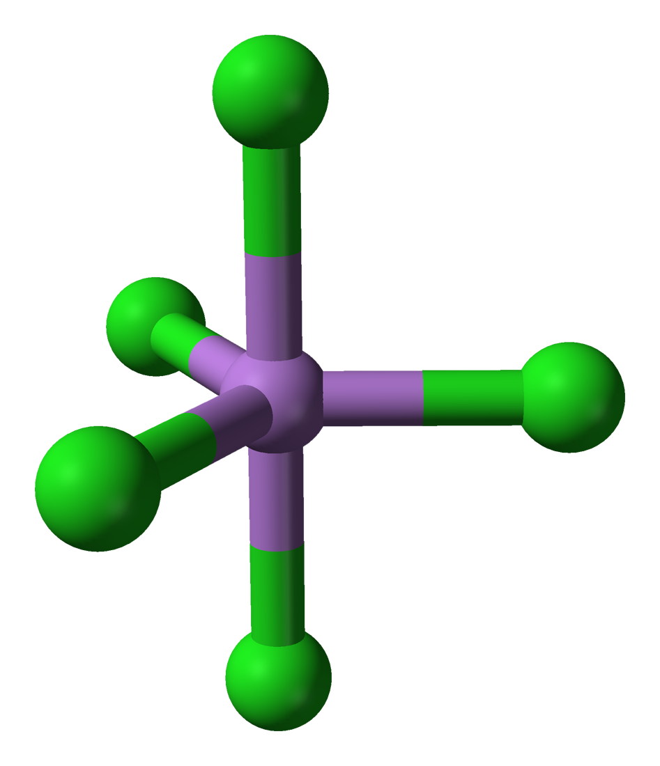 Ball-and-stick model of the arsenic pentachloride molecule, AsCl5, as found in the crystal structure at −123 °C (150 K). X-ray crystallographic data from Z. Anorg. Allg. Chem. 2002, 628, 729-734. Model constructed in CrystalMaker 8.1. Image generated in Accelrys DS Visualizer.